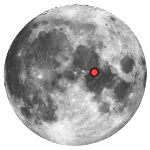 Description: Location of the Plinius crater on the Moon. The marker also shows the proximity of the Jansen and Dawes craters. Source: This is a modified version of a photo obtained from the NASA Planetary Photojournal. It was modified by RJHall. Width: 150 pixels Height: 150 pixels